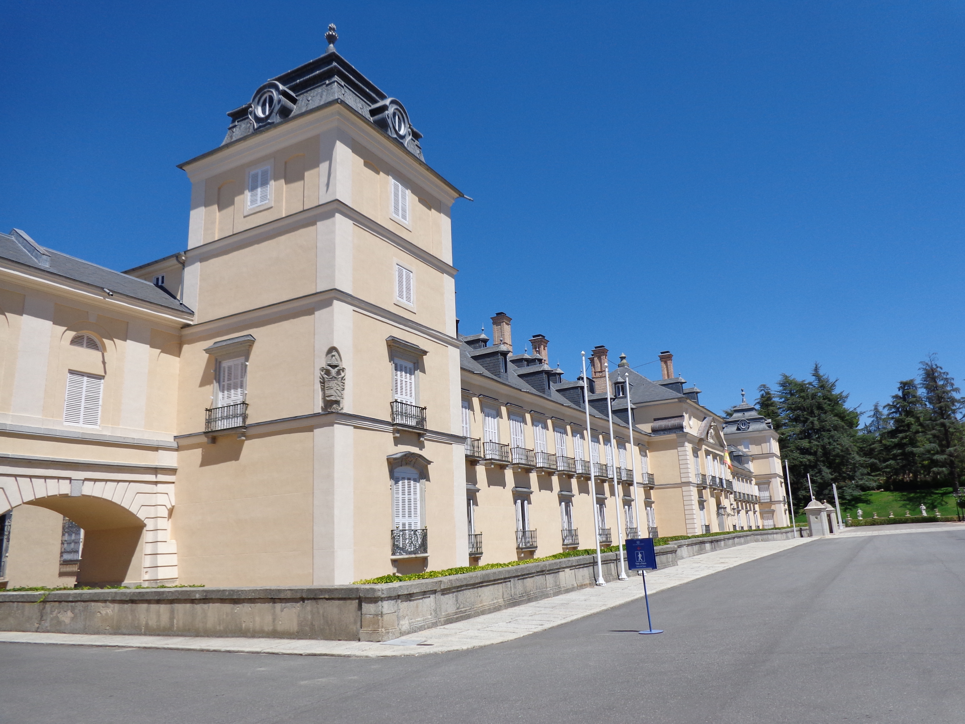 Royal Palace of El Pardo, Madrid